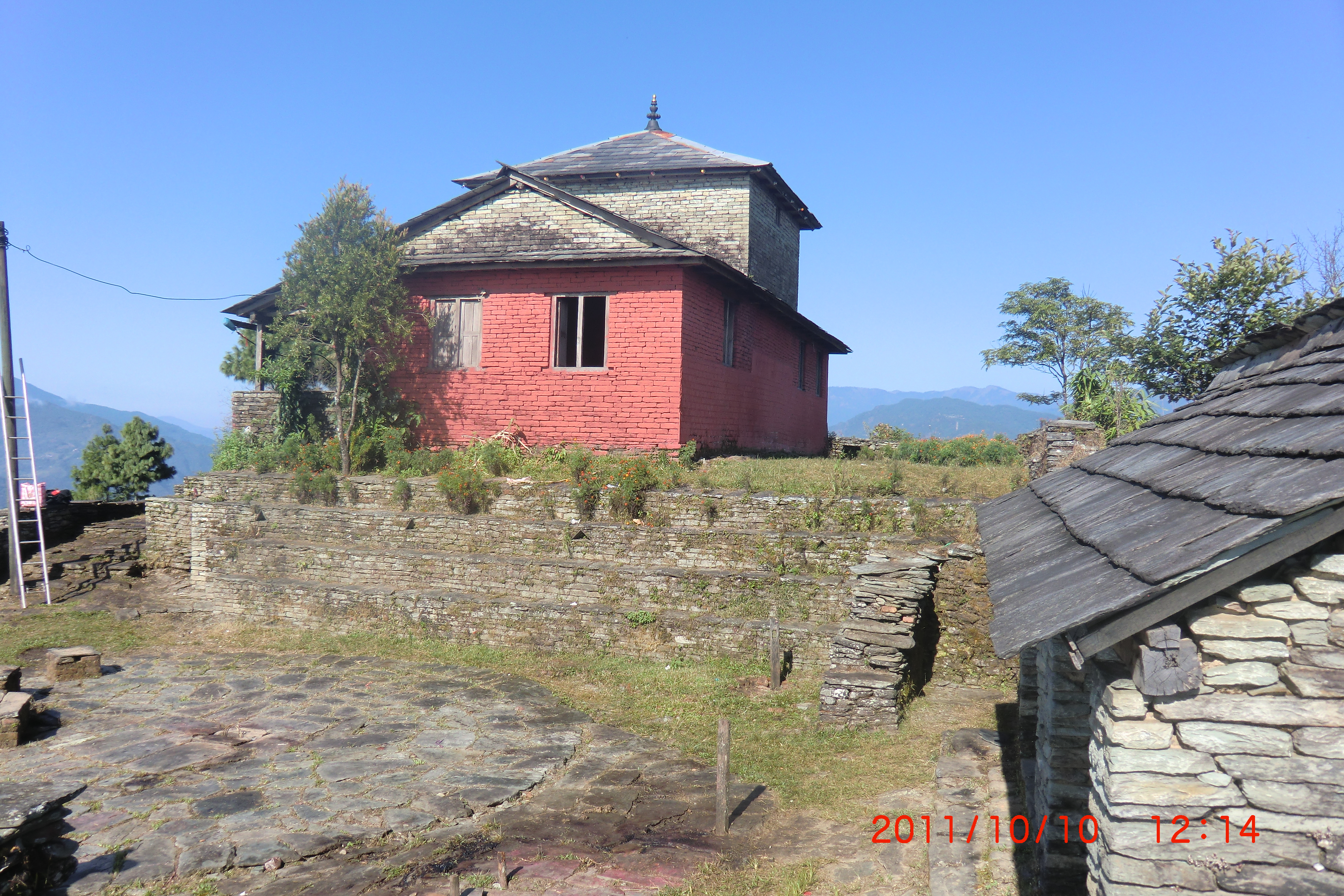 This Photo was taken by me in oct. 2011